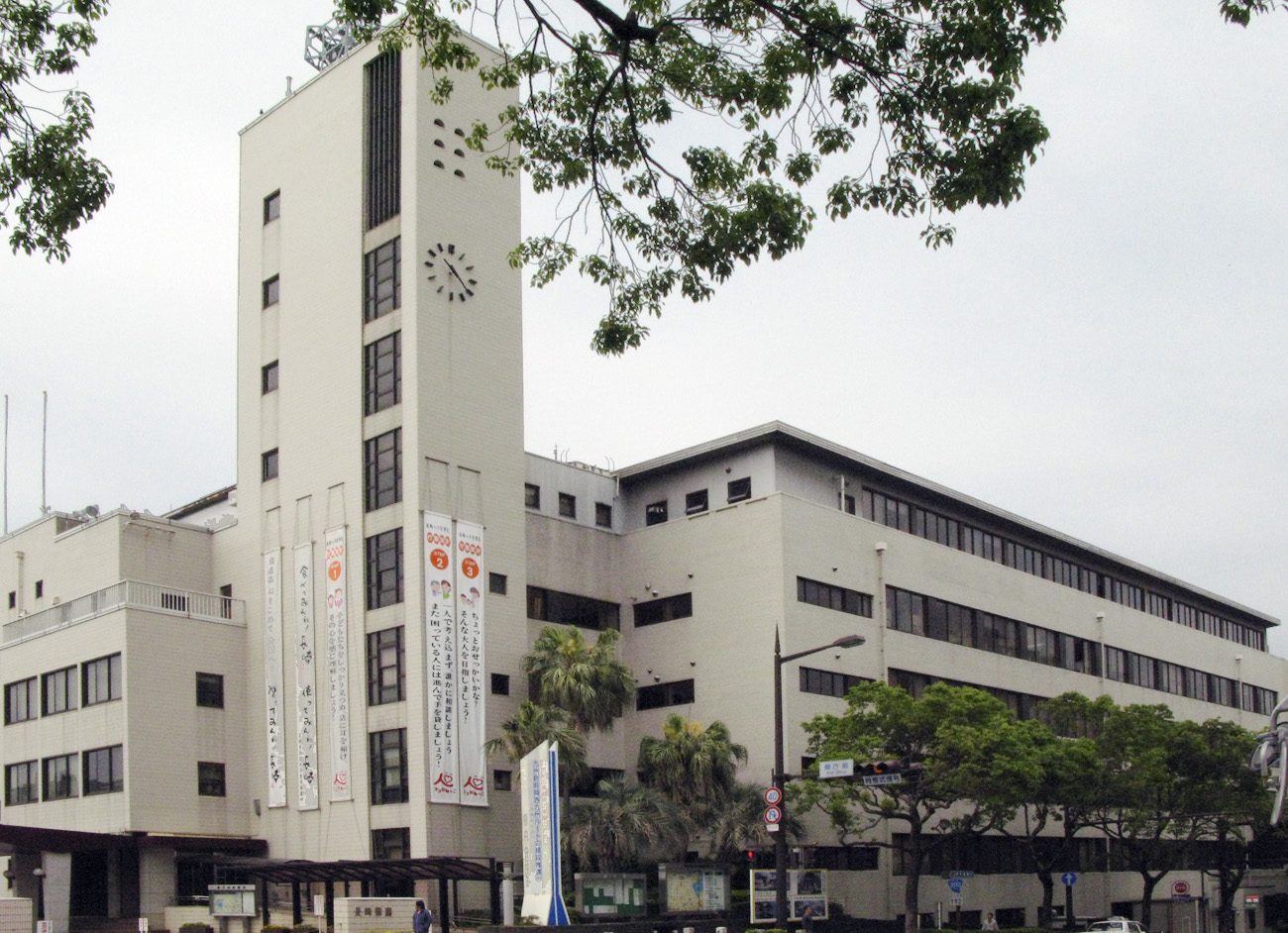 Headquarters of the Nagasaki prefectural government （長崎県庁）